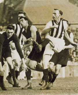 Photograph of Bob Makeham from 1923-1932